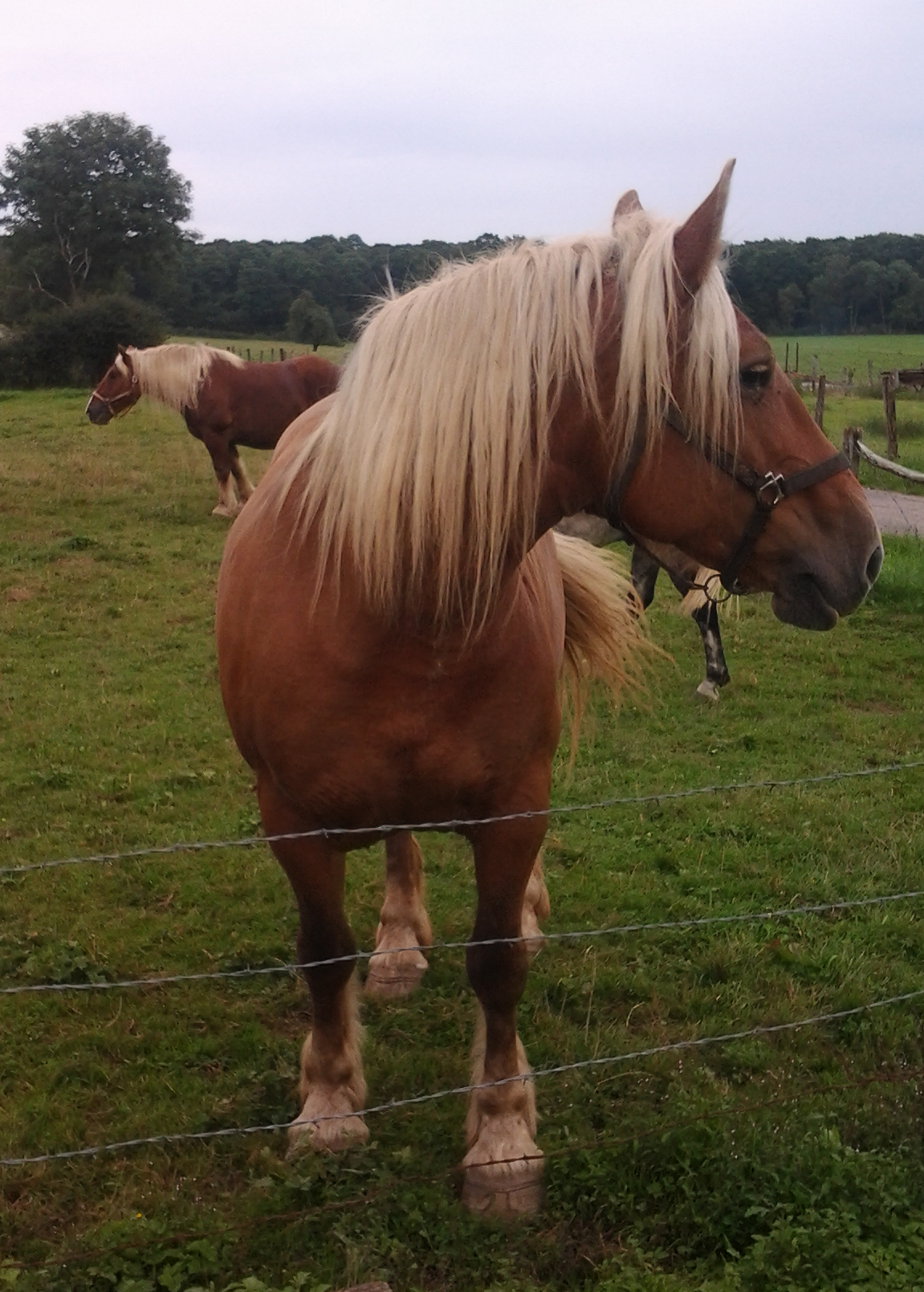 Comtois horses used for touristic purposes in Haute-Saône department in France